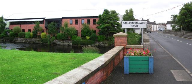 Ballinamallard Village Heading north